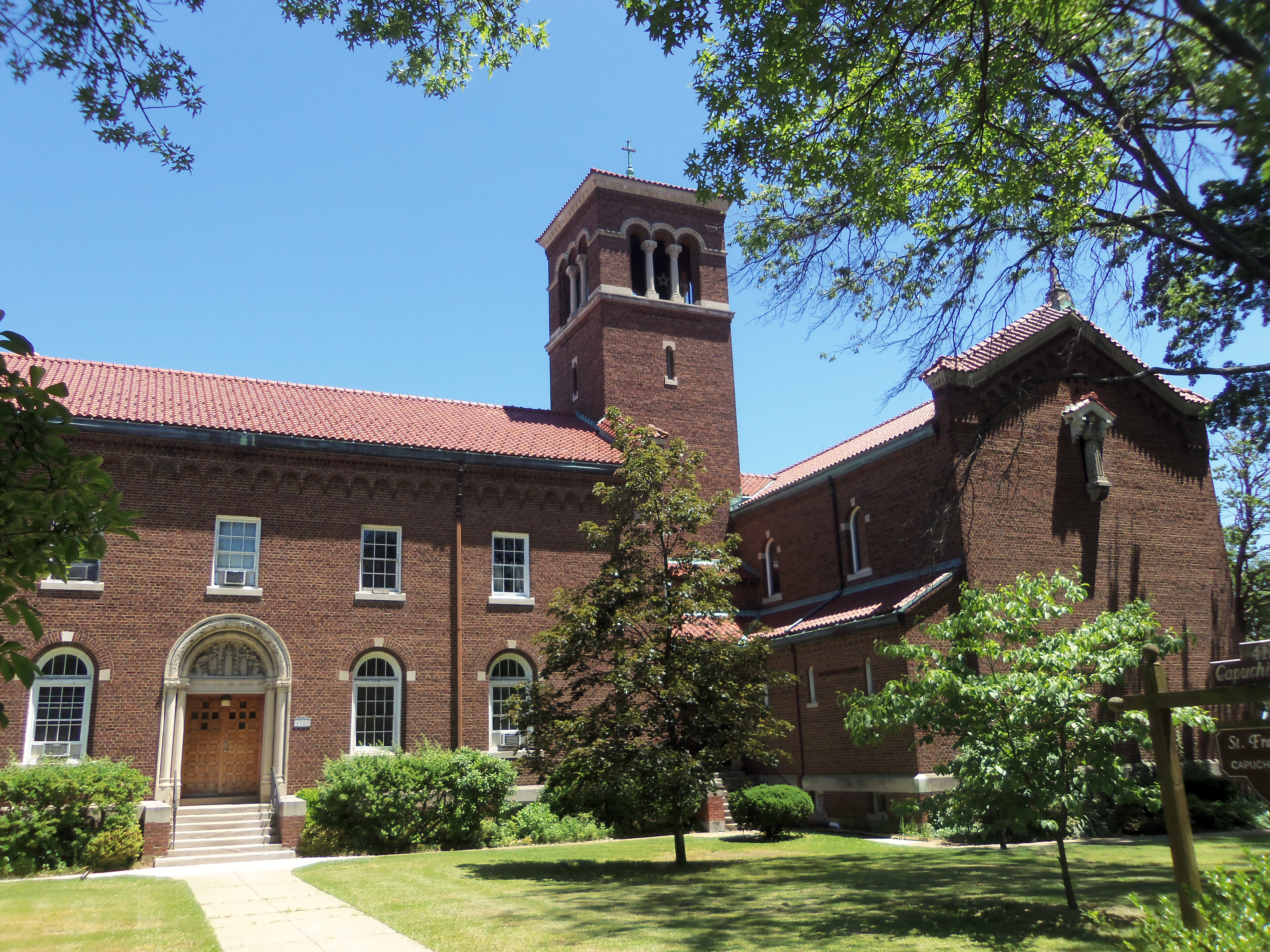 St. Francis Friary (Capuchin) on the campus of The Catholic University of America in Washington, DC.